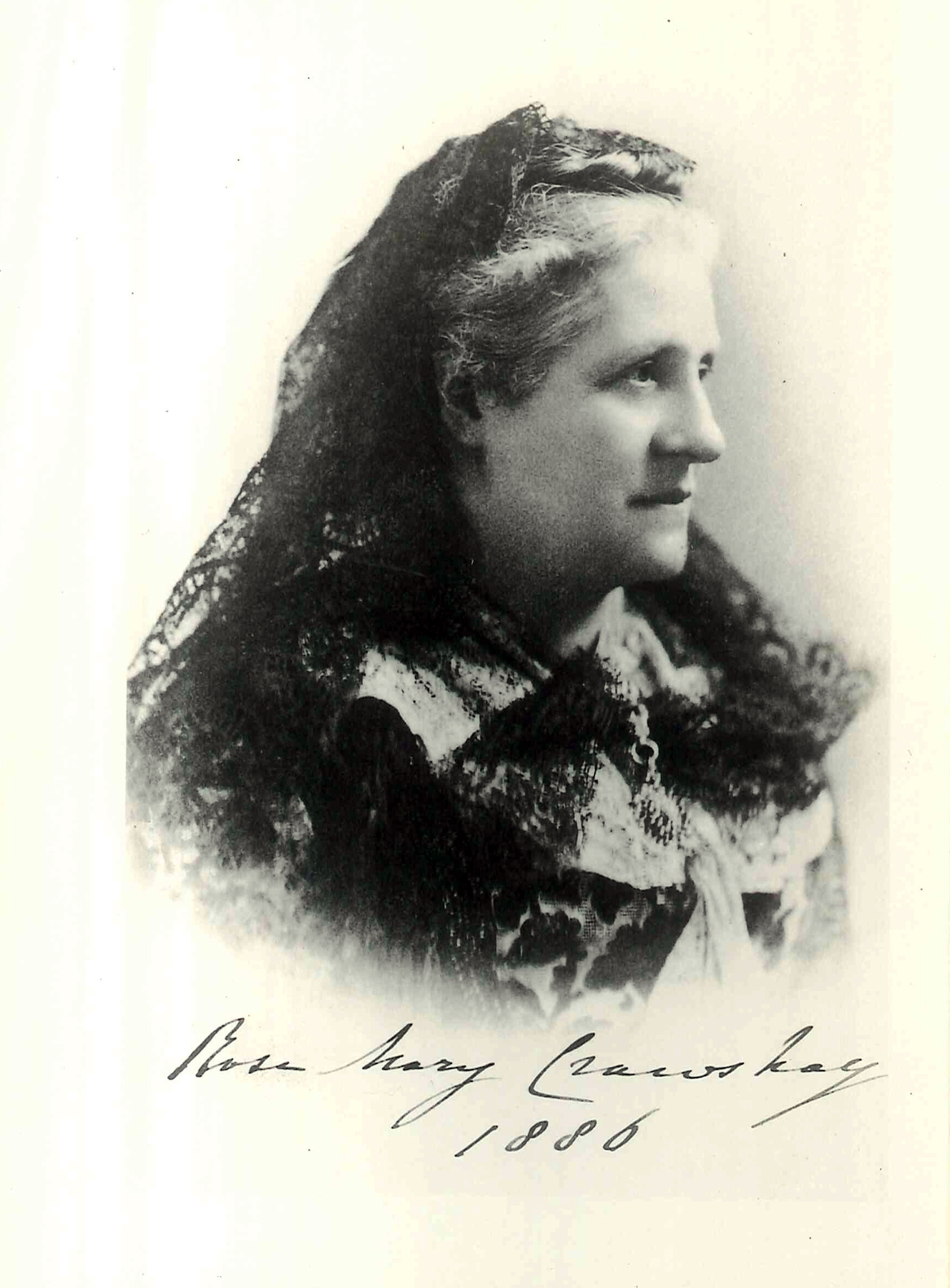 Rose Mary Crawshay (1828–1907) was a British philanthropist. - 1886 pic from Peoples Collection of Wales